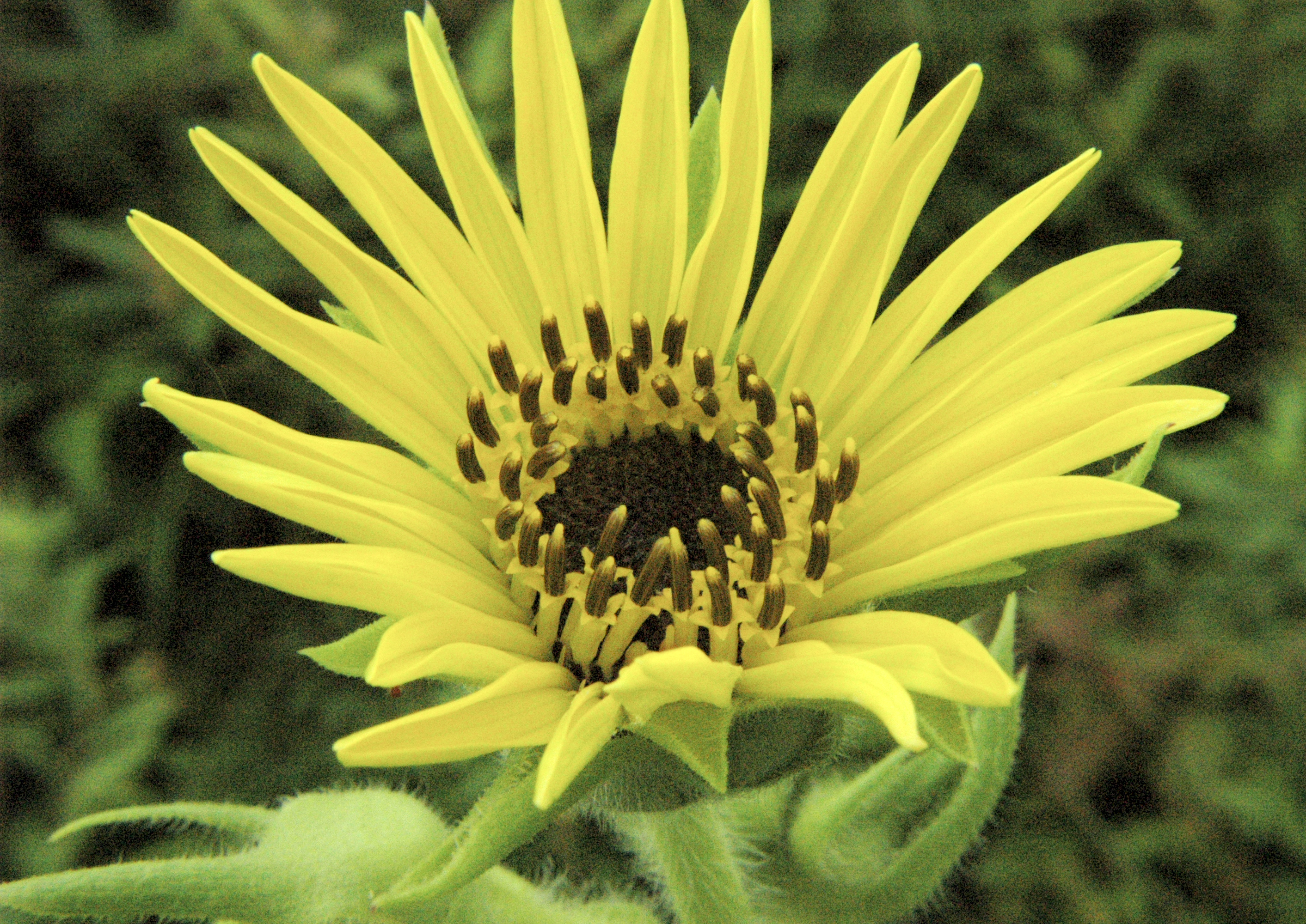 Silphium laciniatum at James Woodworth Prairie Preserve, Glenview, IL, USA